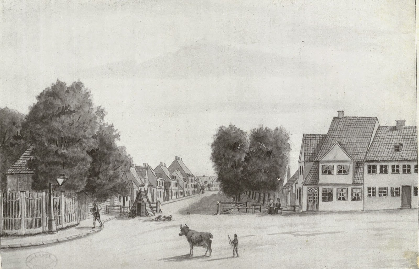 Fælledvej viewed from what is now Sankt Hans Torv in Nørrebro, Copenhagen, Denmark